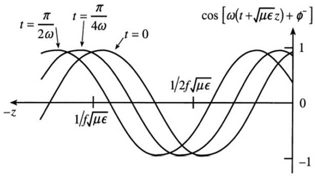 Optical mechanical waveform reflected